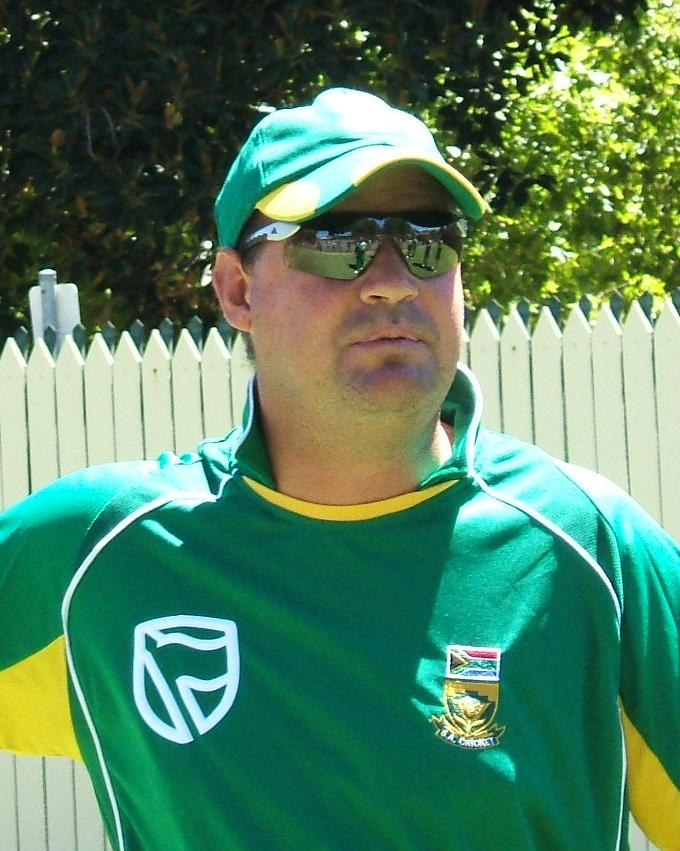 Mickey Arthur at a training session at the Adelaide Oval